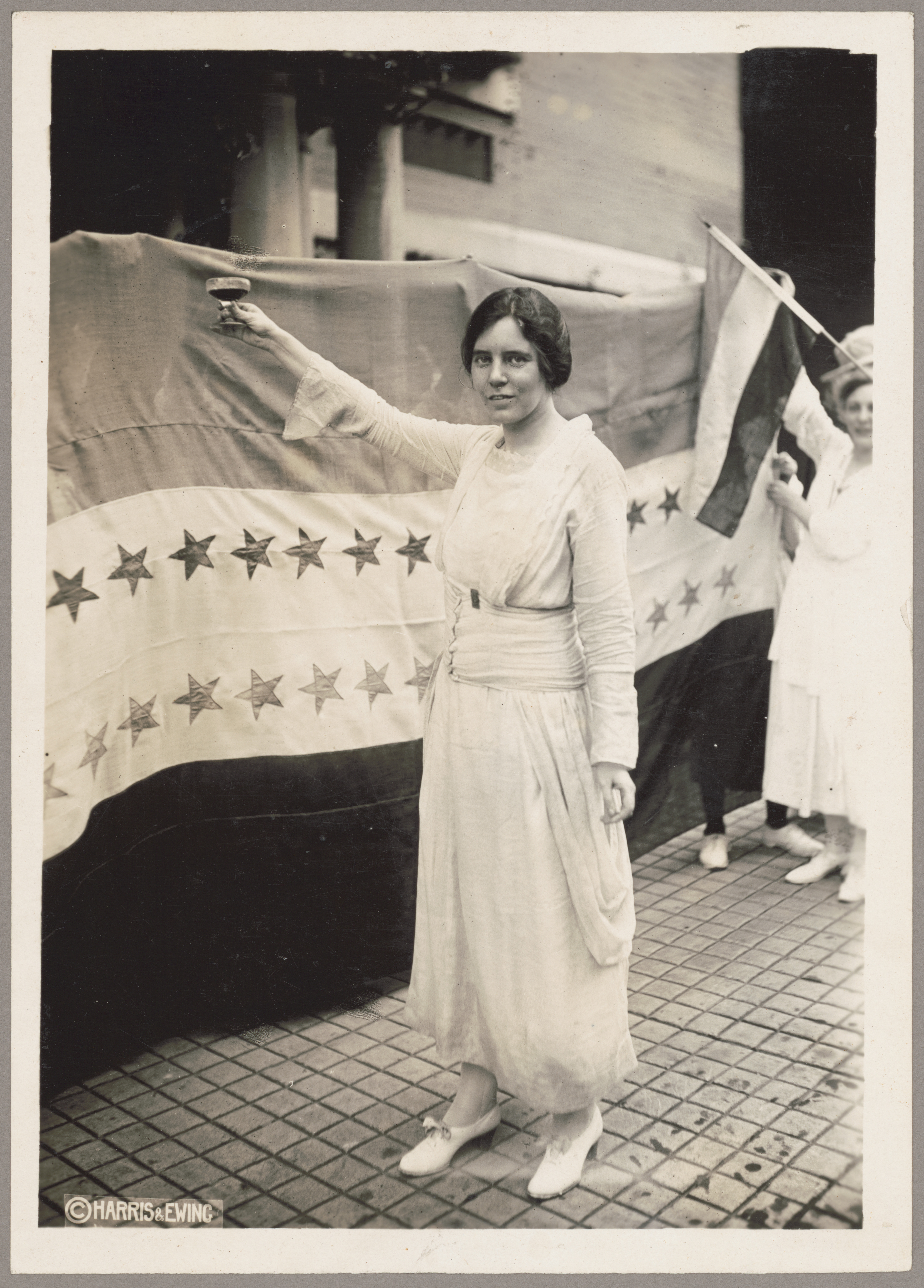 Alice Paul, full-length portrait, standing, facing left, raising glass with right hand.